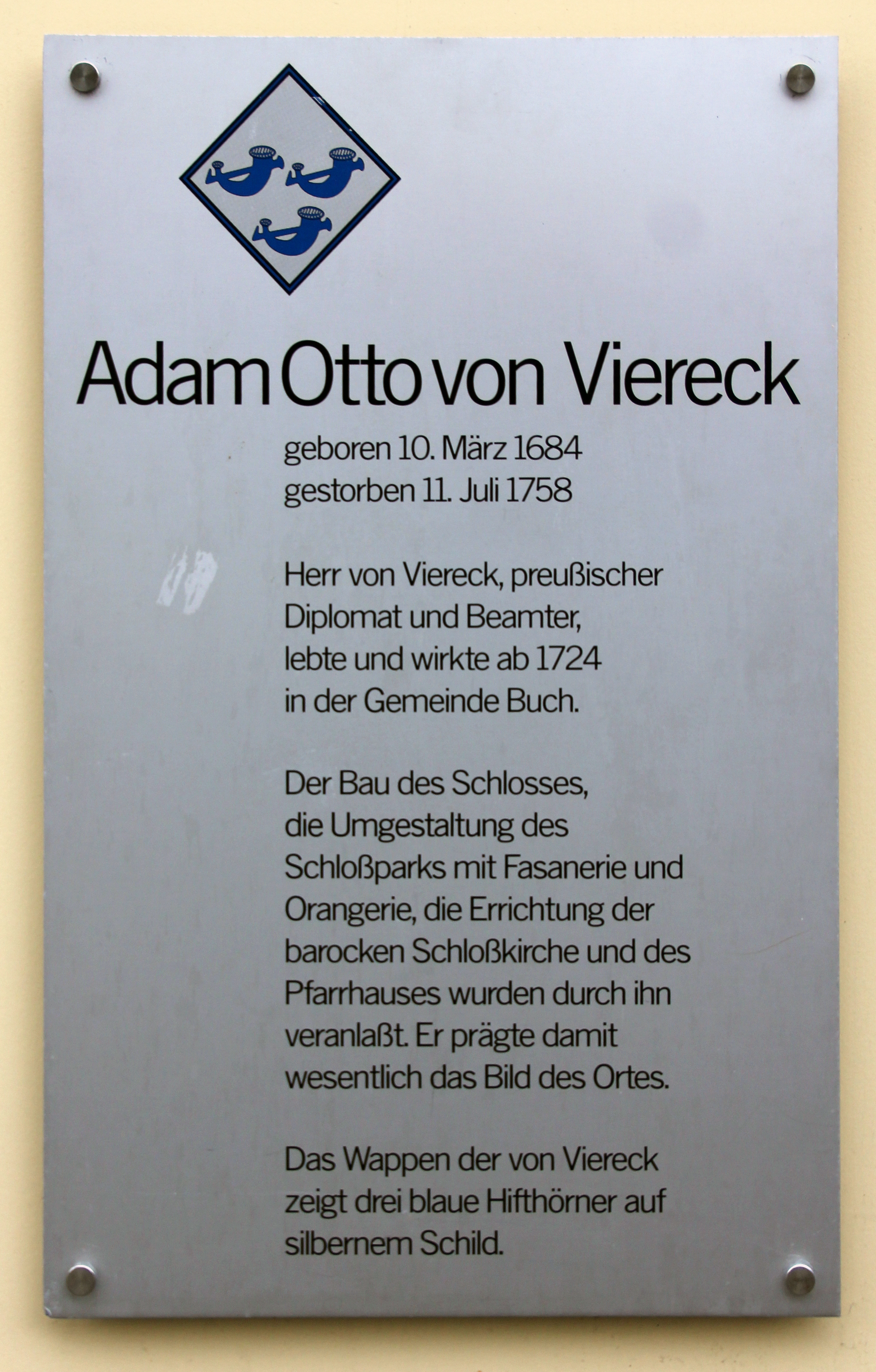 Memorial plaque, Adam Otto von Viereck, Wiltbergstraße 25, Berlin-Buch, Deutschland